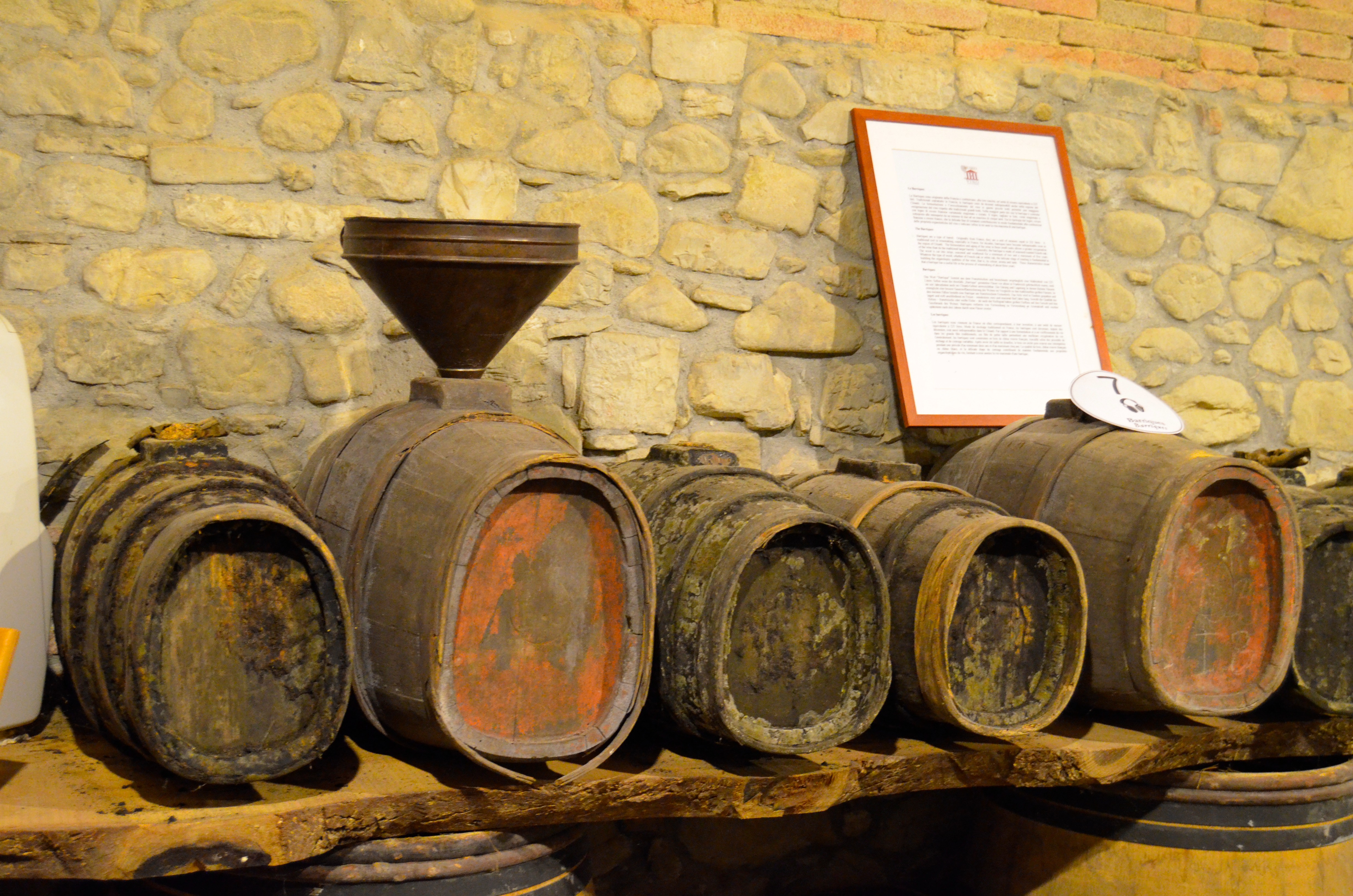 Old barrels in the Wine Museum in Greve in Chianti - Italy